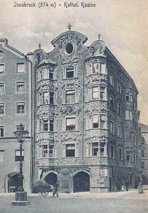 Helblinghaus, Innsbruck, called "Katholisches Kasino" by 1905